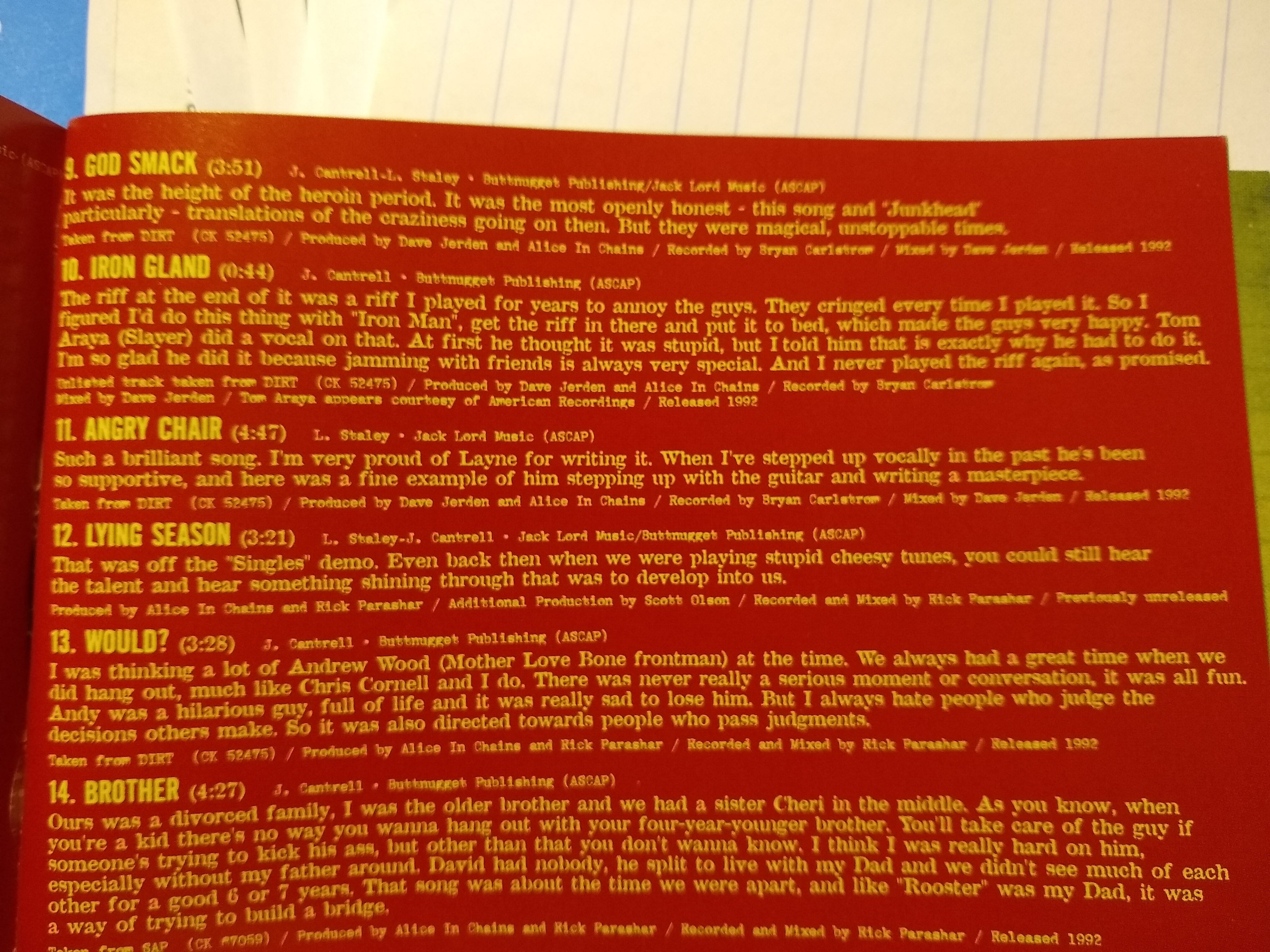 Alice in Chains - Music Bank. Liner notes